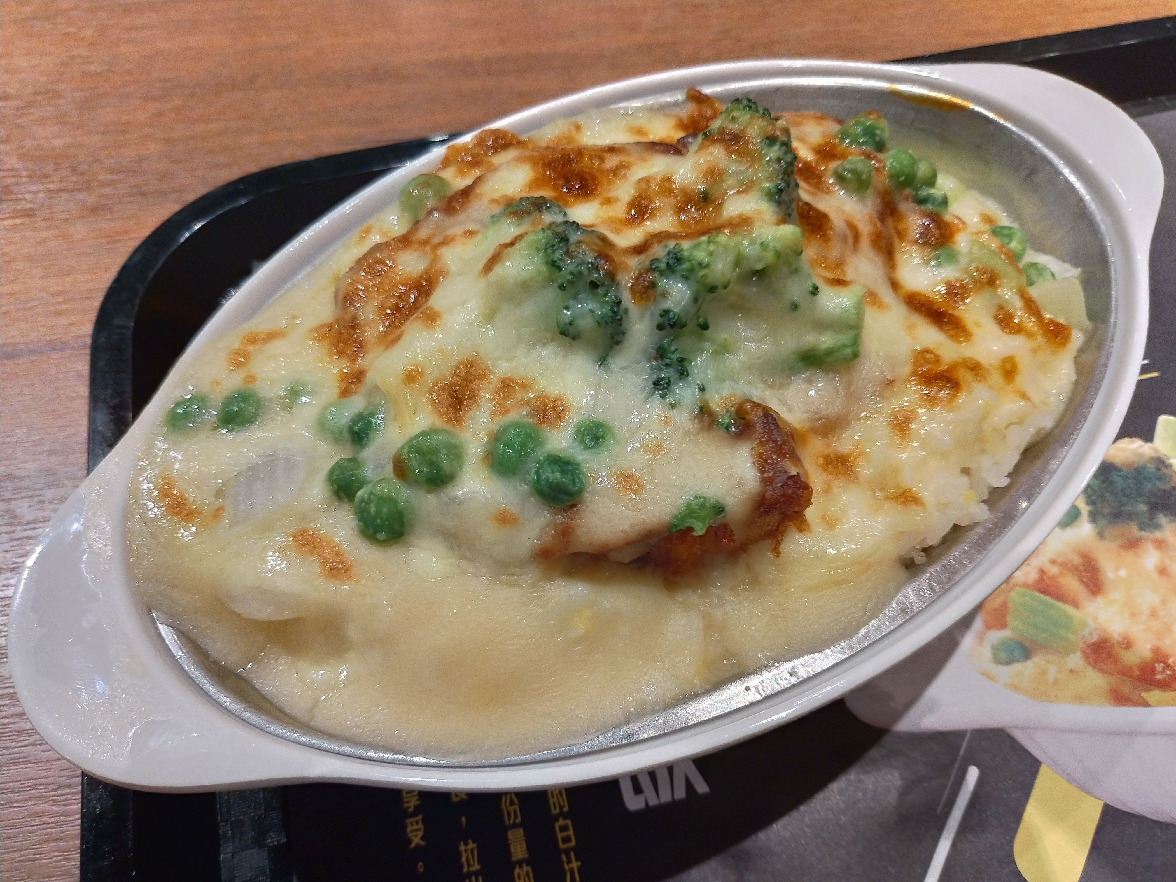 Baked Pork Chops with Cheese and Fried Rice at a fast food restaurant in HK.